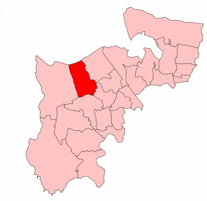 A map of Harrow West constituency within Middlesex, as it existed from 1945 to 1950.